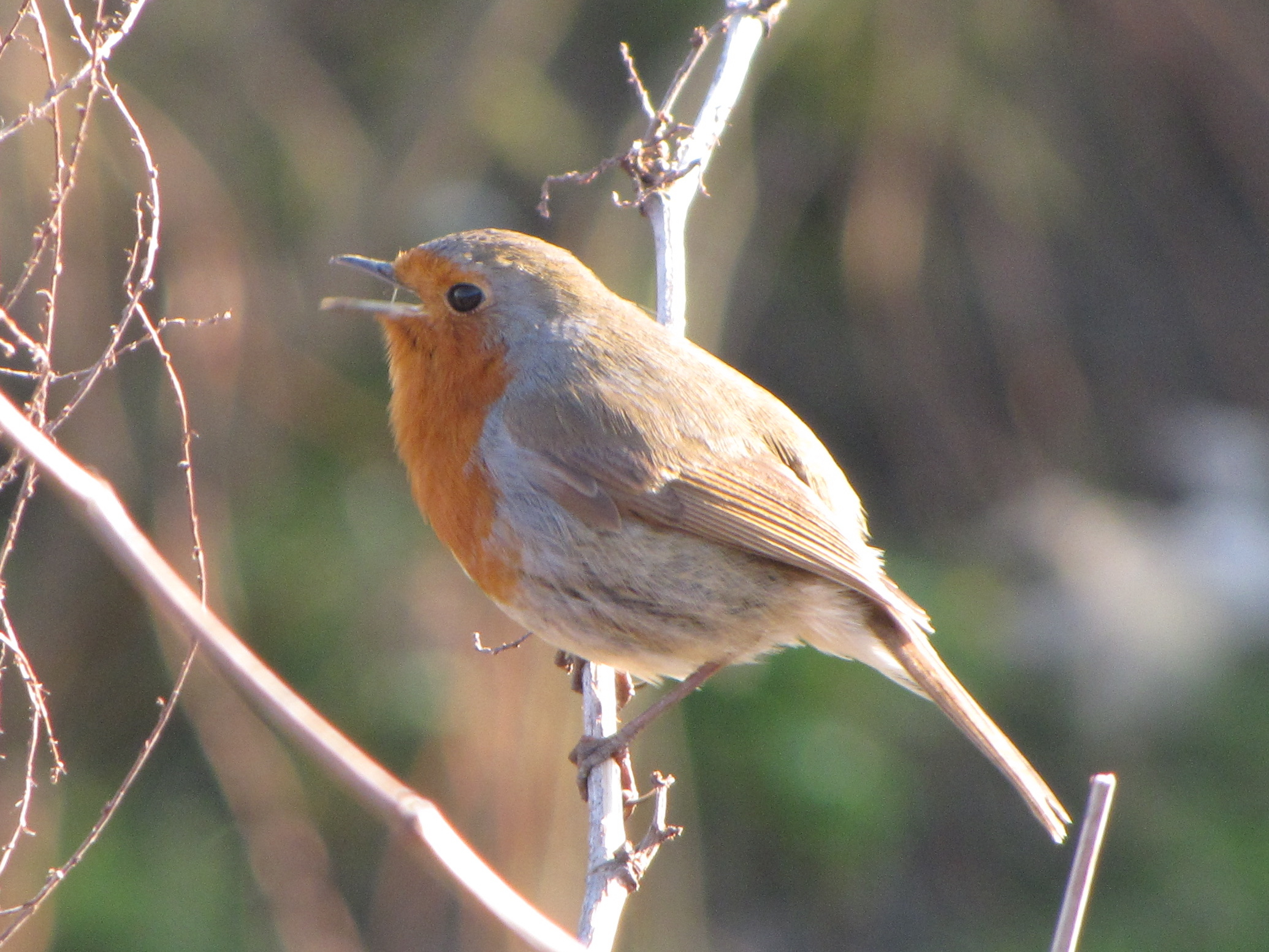 A European Robin singing near Doolin, Ireland